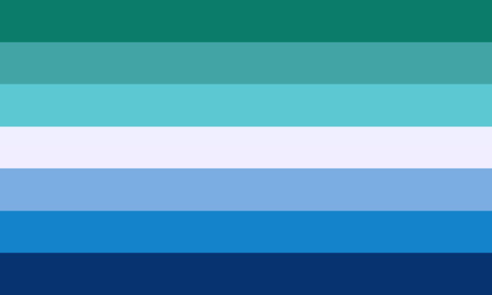 Gay man flag. This flag designed around August 2016.